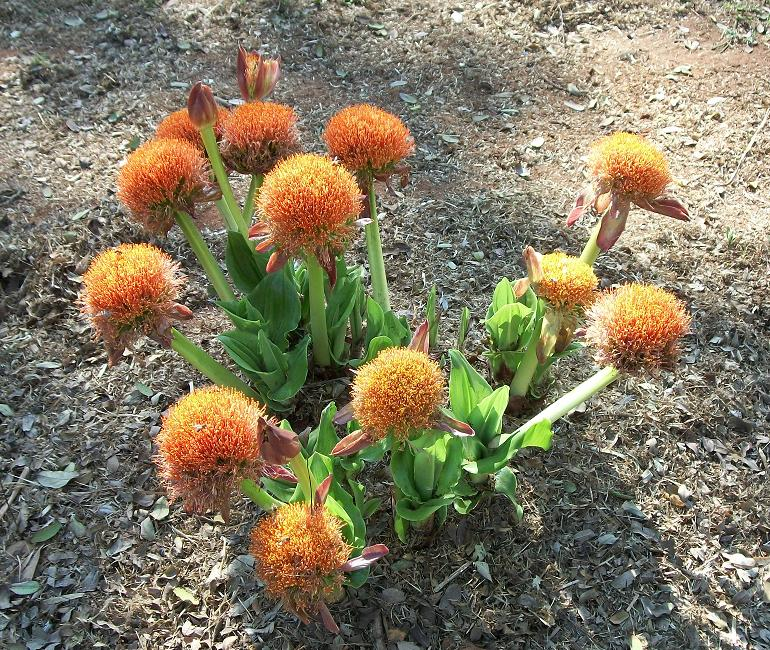 Scadoxus puniceus at Durban Botanic Gardens, South Africa